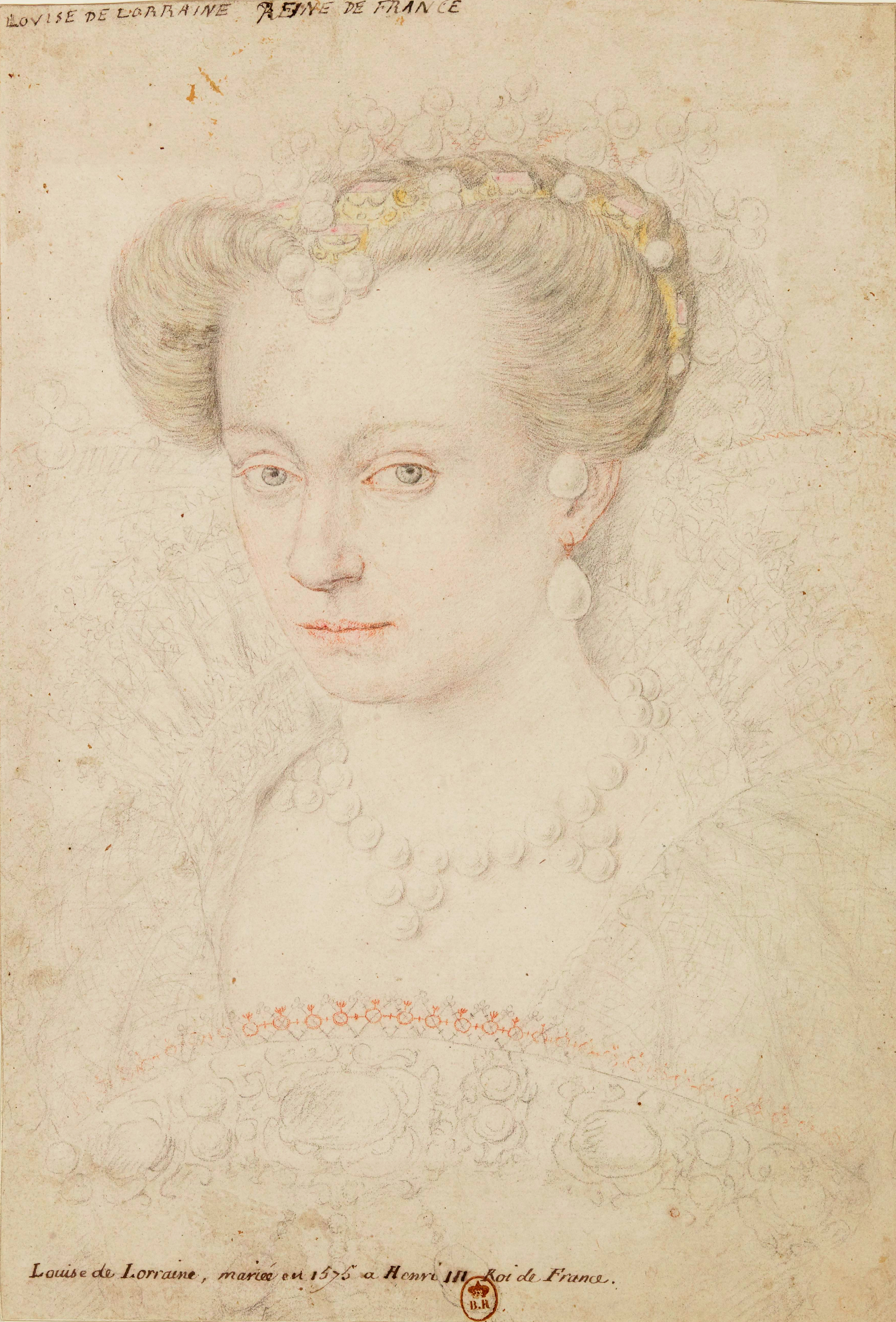 Portrait of Louise of Lorraine, queen of France.